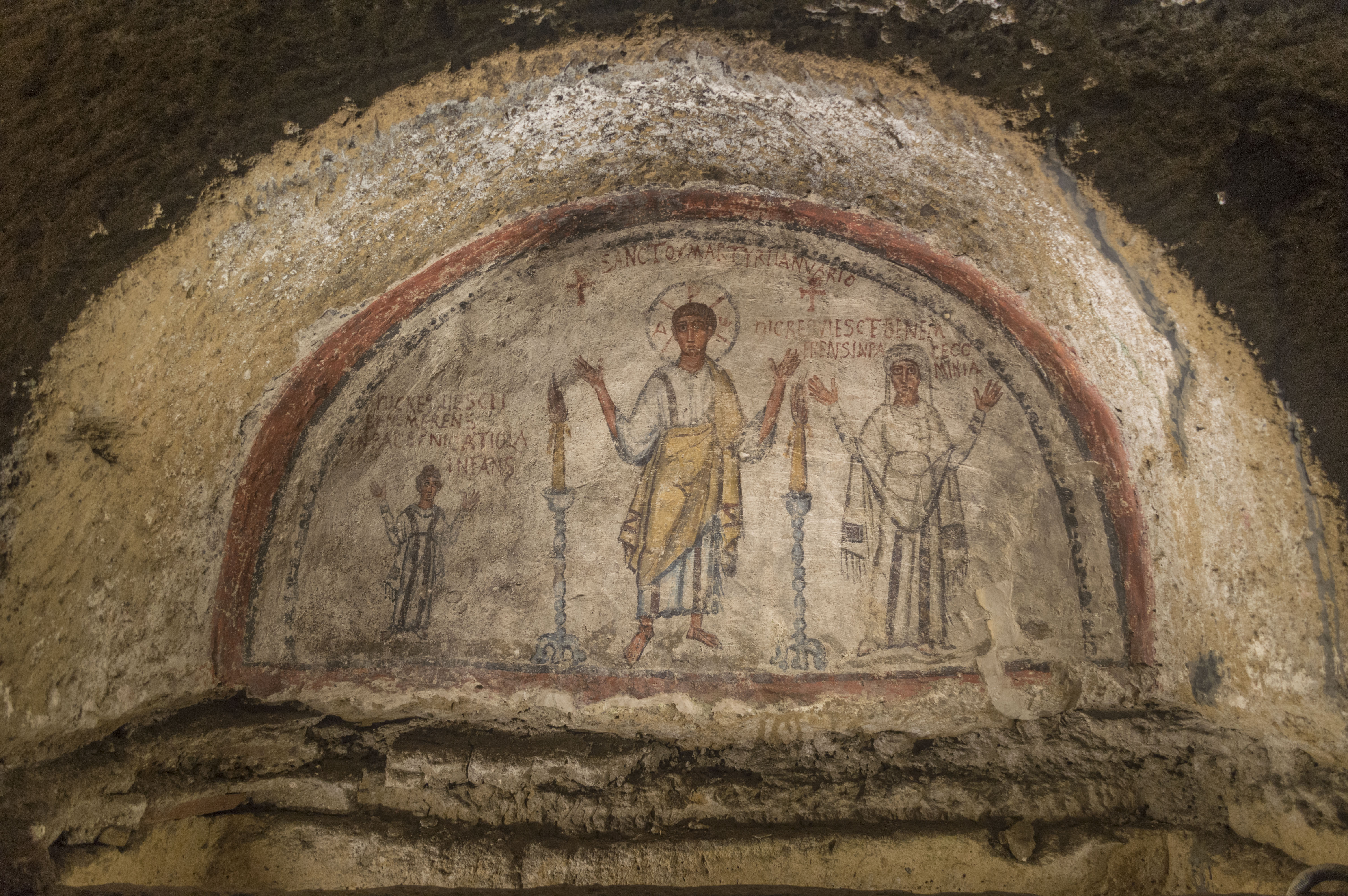 Catacombs of Saint Gennaro